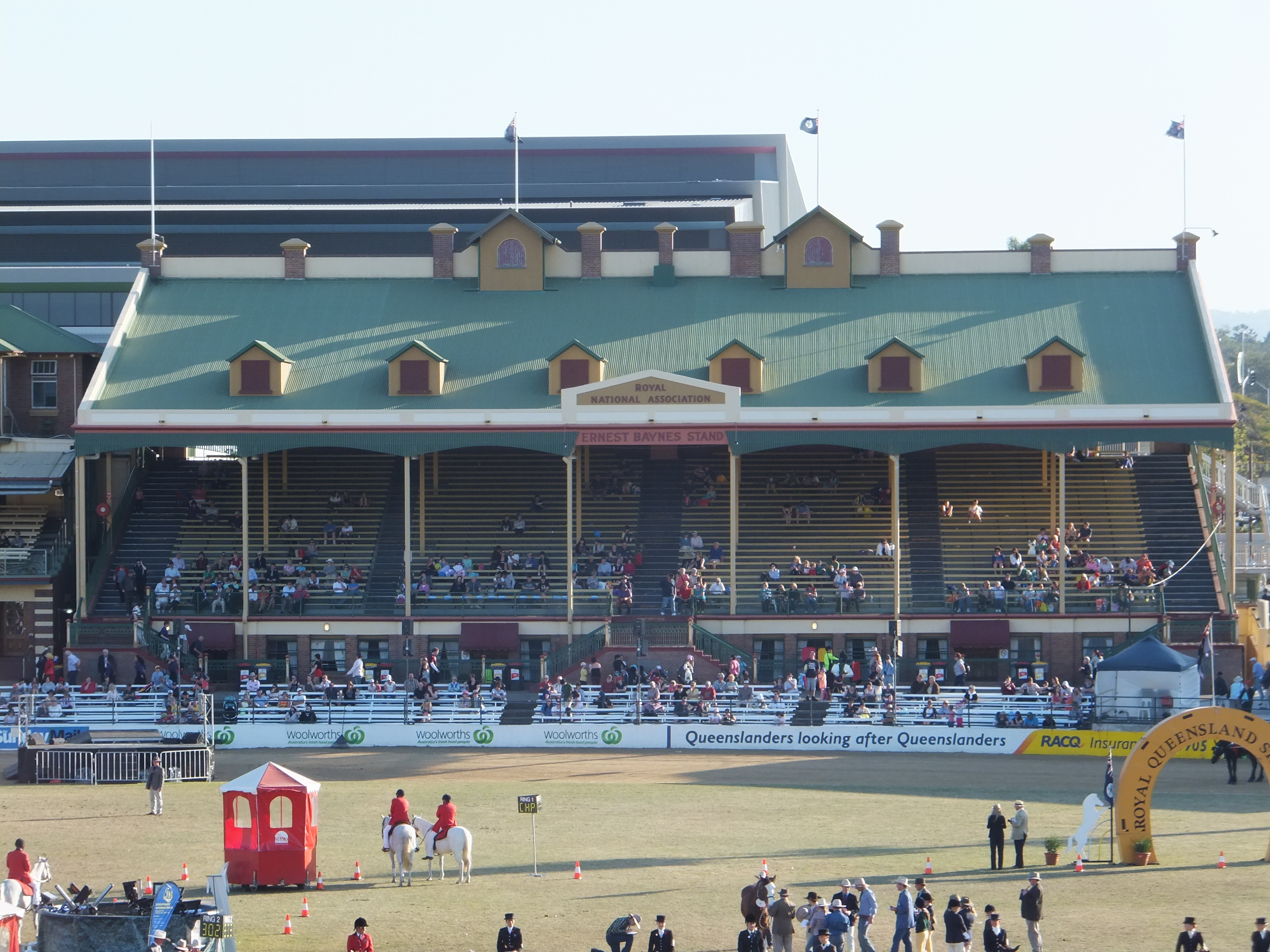 Grandstand at Brisbane Exhibition Ground. 2013 Ekka / Royal Queensland Show